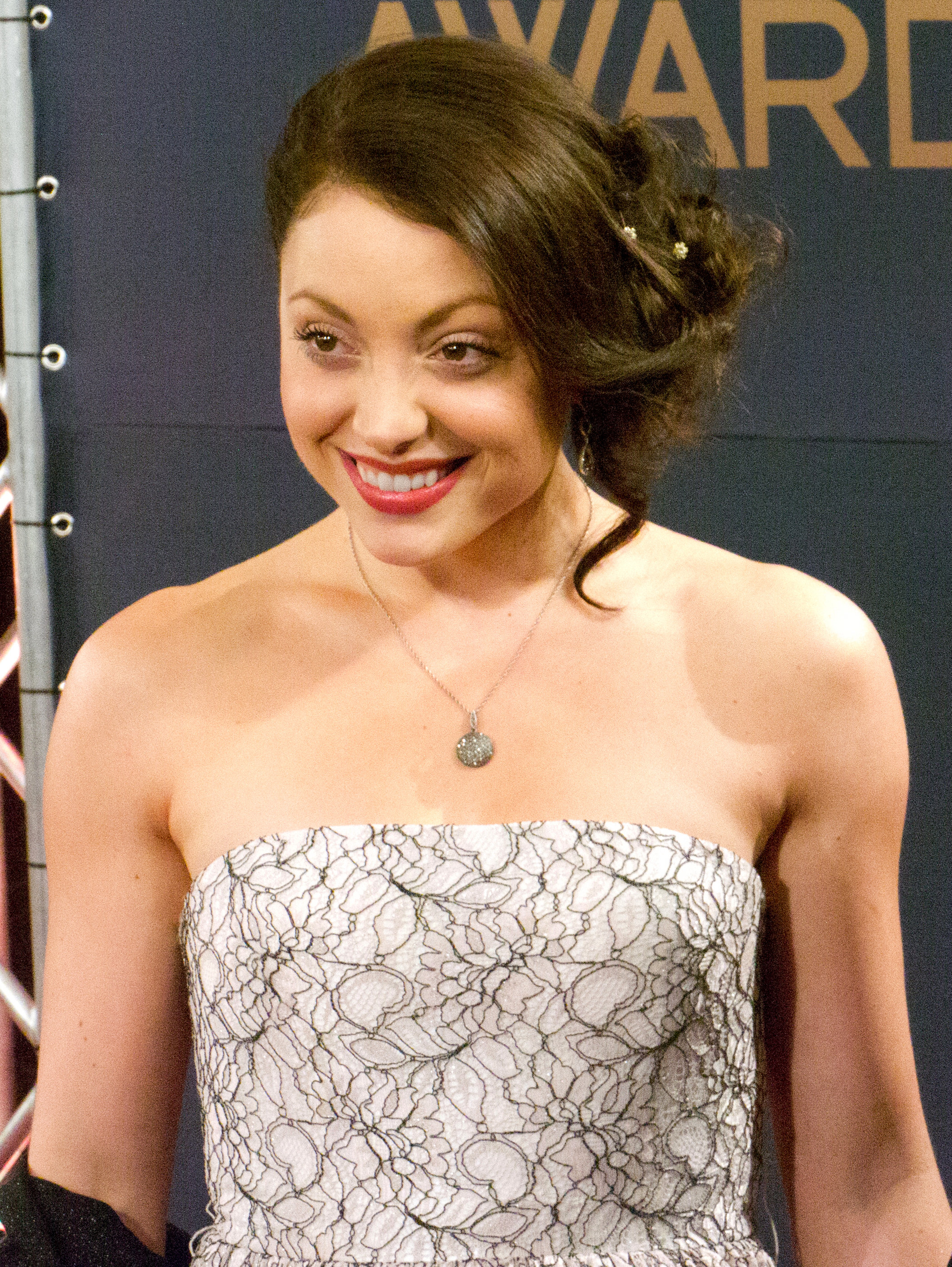 Lea Gibson makes a red carpet appearance at the 32nd Annual Genie Awards, held in Toronto, Ontario, Canada on March 3rd 2012.